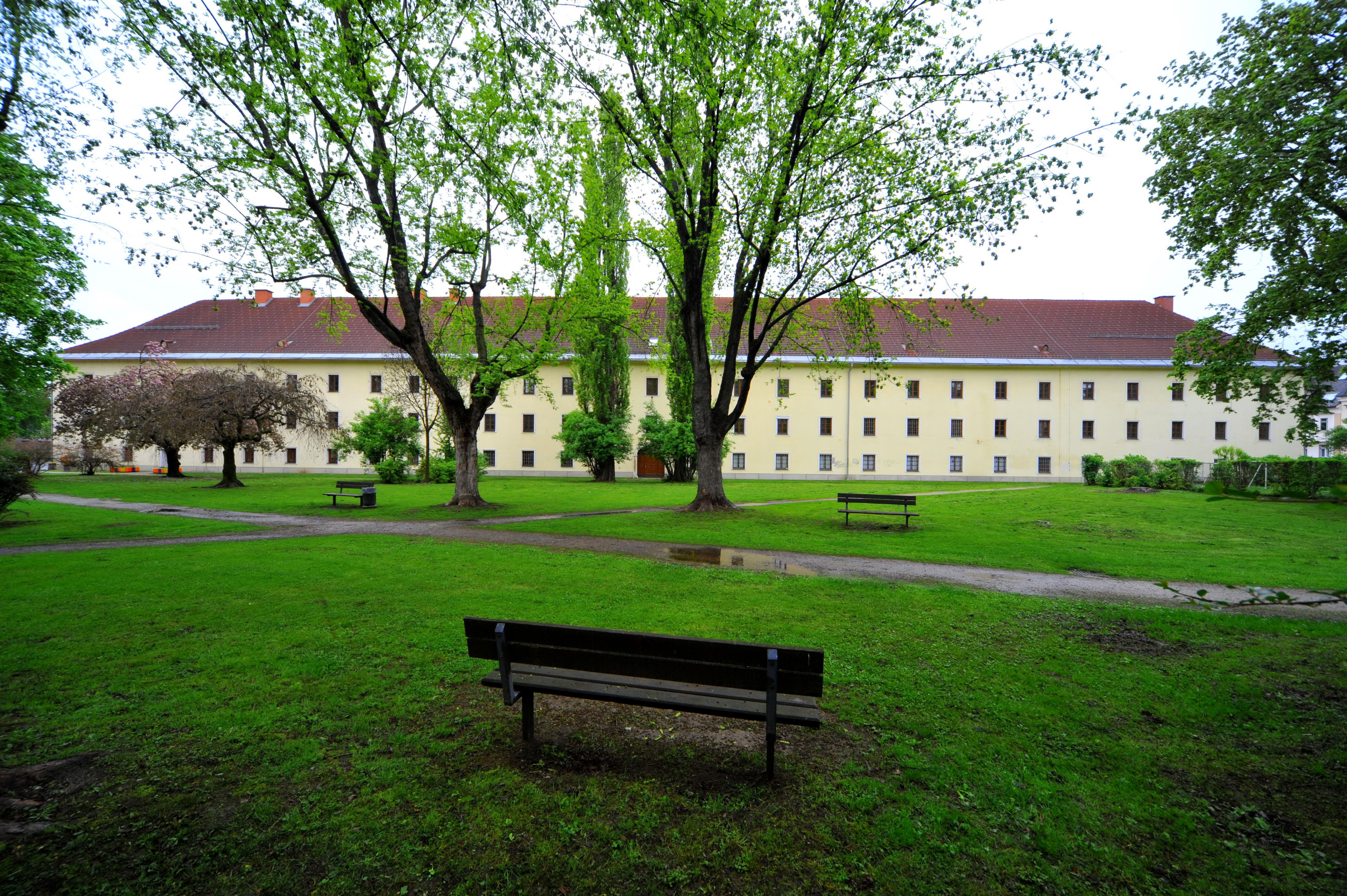 South view at the former barracks “Waisenhauskaserne”, seen from the Maria Theresia Park, 5th district Sankt Veiter Vorstadt of the Carinthian capital Klagenfurt on the Lake Woerth, Carinthia, Austria